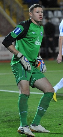 Dmytro Nepohodov